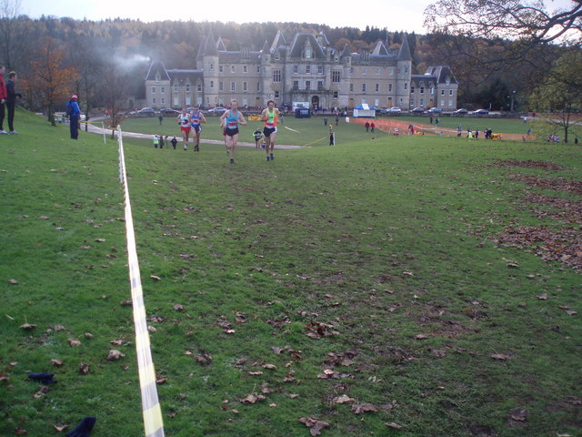 The Wall No, not Pink Floyd! - the Antonine Wall, in Callendar Park, Falkirk - and one of the best settings for cross country anywhere in the British Isles. Callendar House in the background - perhaps the white smoke is a surrender from the Scots as England have just soundly beaten us in an international veterans cross country? - more likely because the wind chill was well under freezing!